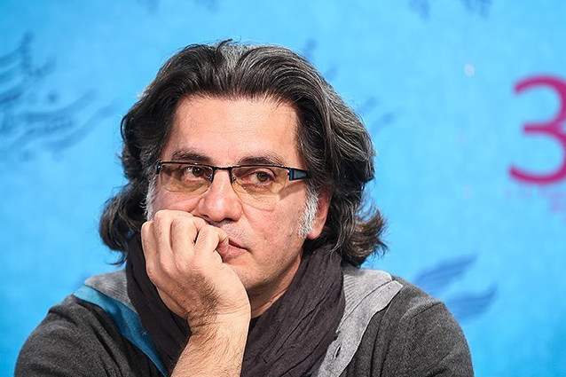 Shadmehr Rastin in the press conference of Today(film).